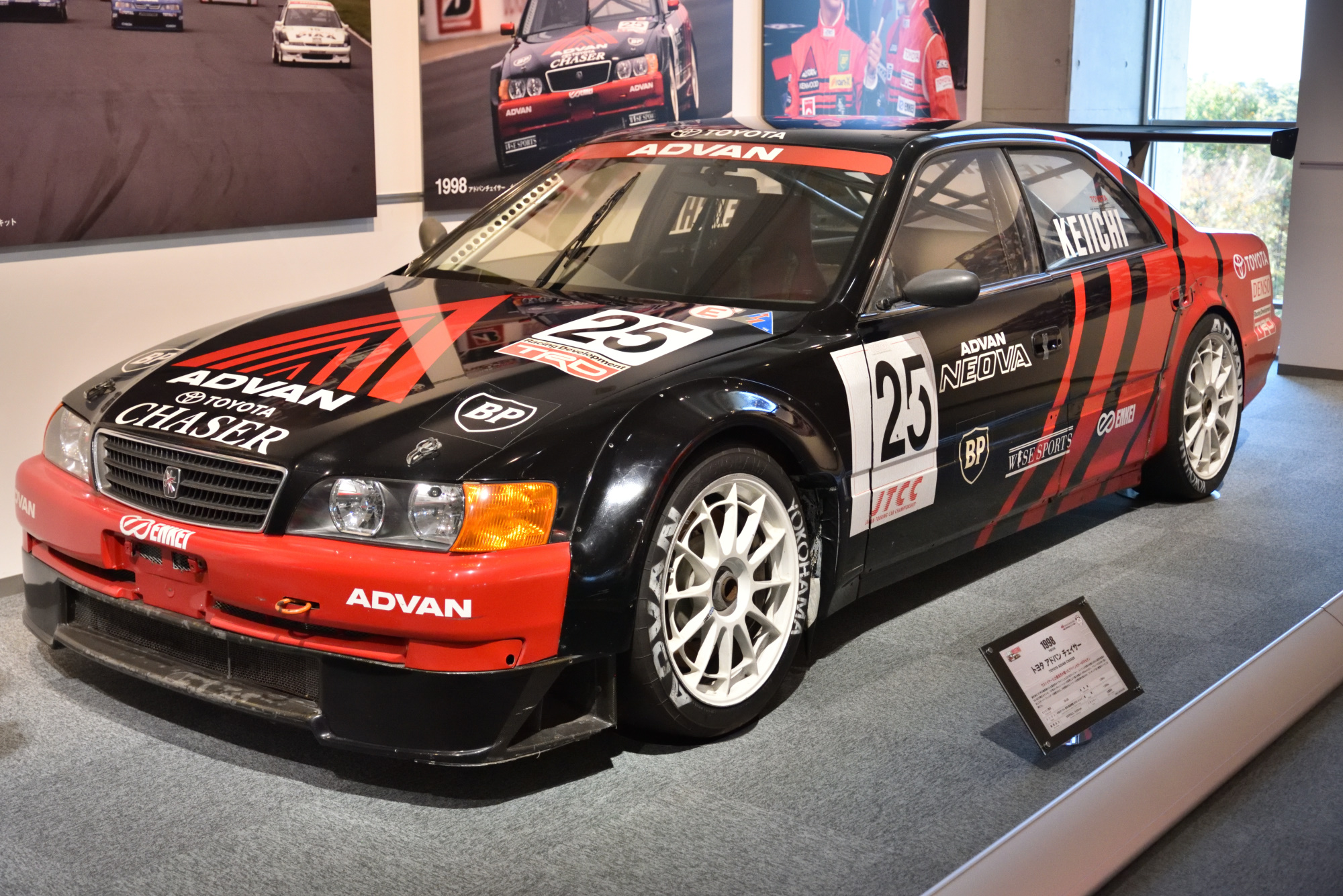 TOYOTA ADVAN CHASER (Keiichi Tsuchiya, JTCC 1998)